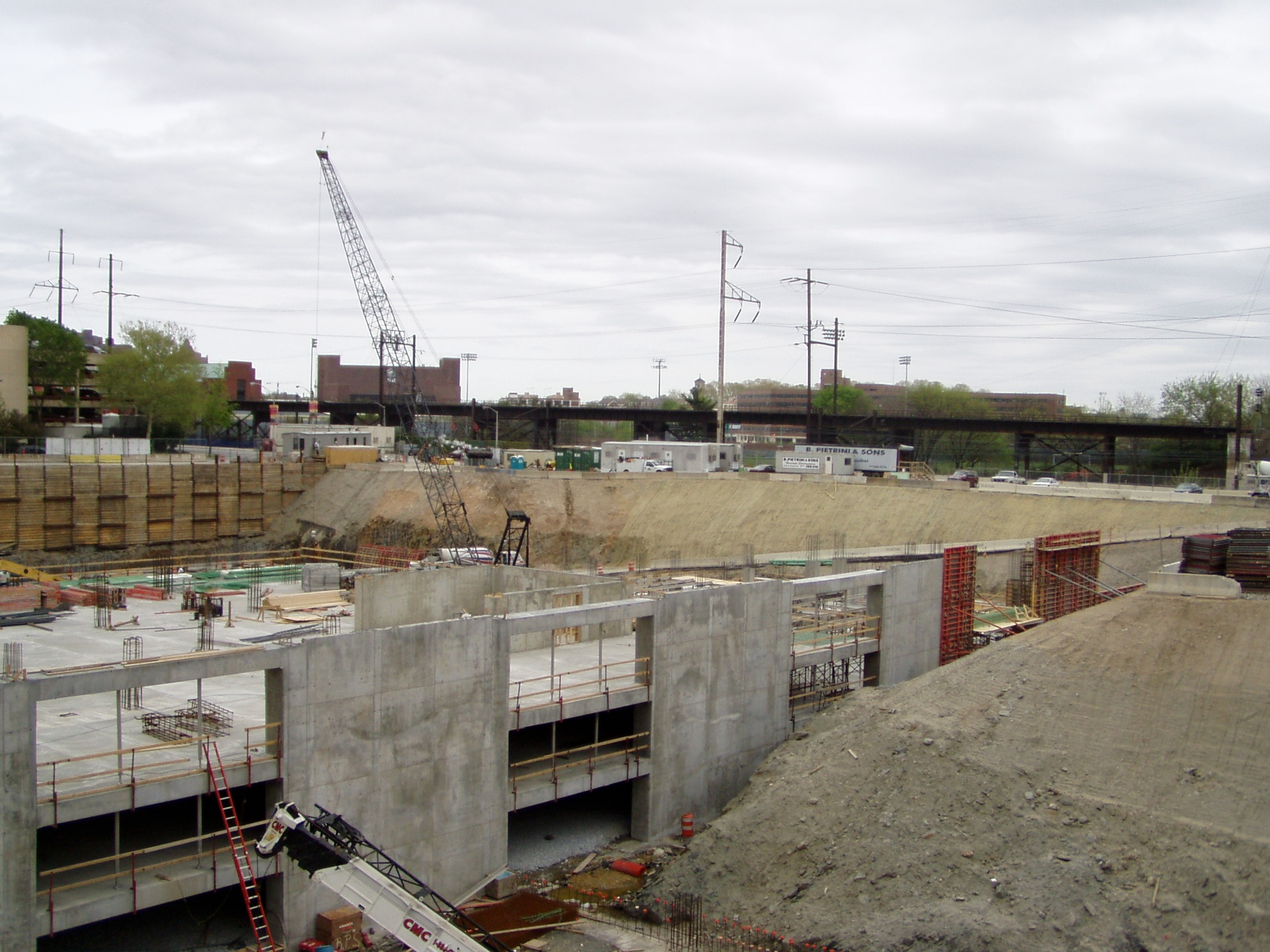 Taken in Philadelphia, Pennsylvania, in April 2006. The Raymond and Ruth Perelman Center for Advanced Medicine is under construction at the University of Pennsylvania.